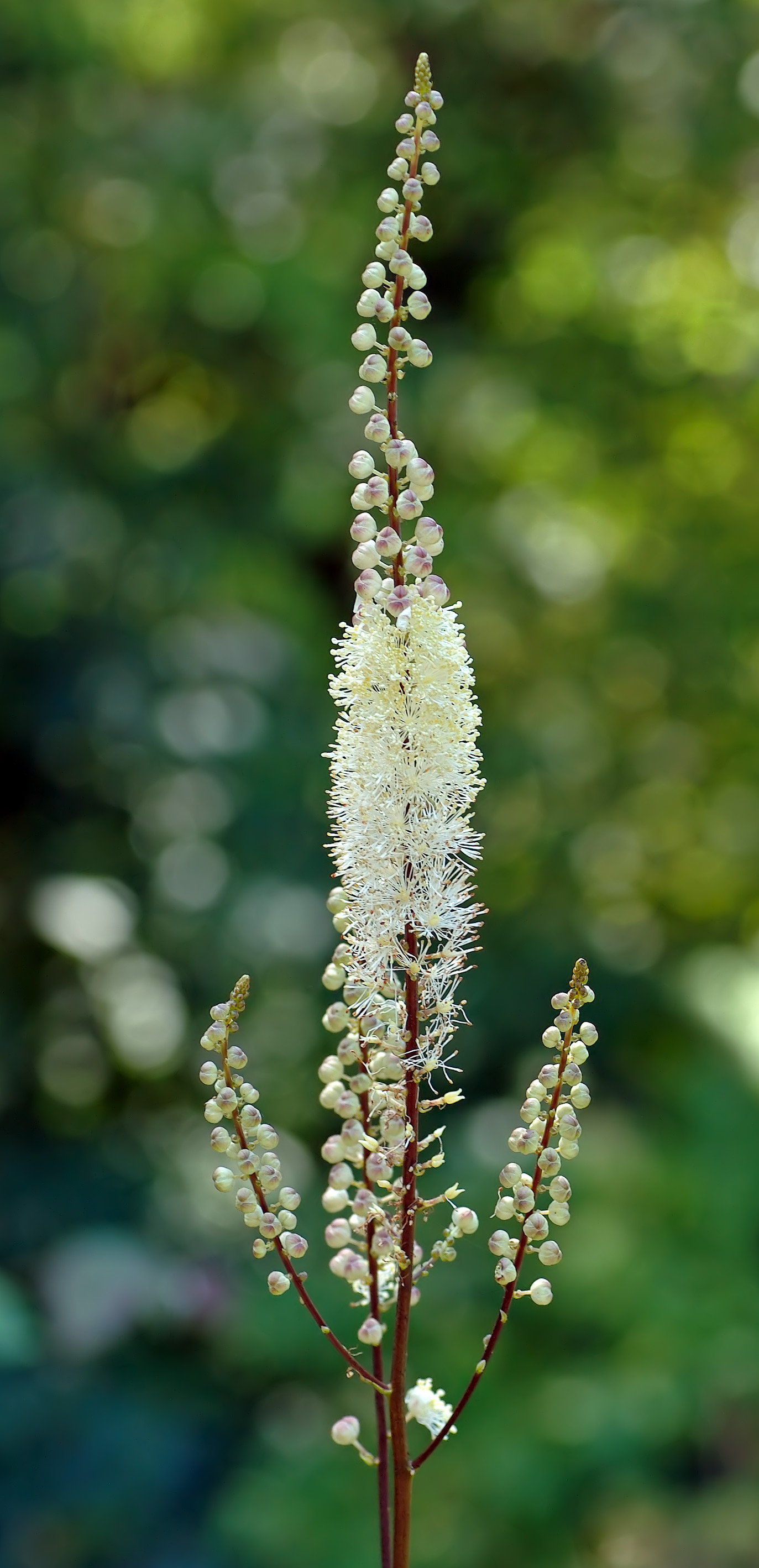 This image shows the blossom of a Komarov's bugbane plant (Cimicifuga heracleifolia).